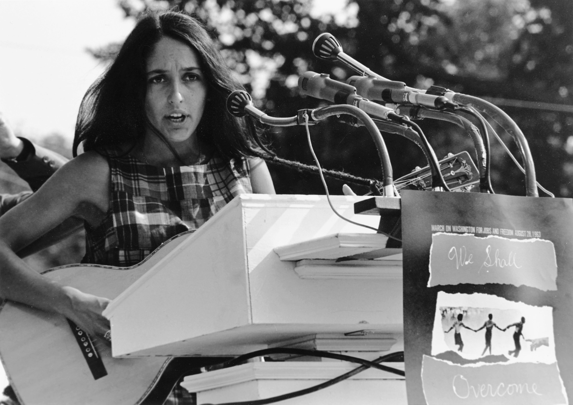 Civil Rights March on Washington, D.C. [Entertainment: Vocalist Joan Baez. A sign hanging near the microphones reads "We Shall Overcome." ], 08/28/1963